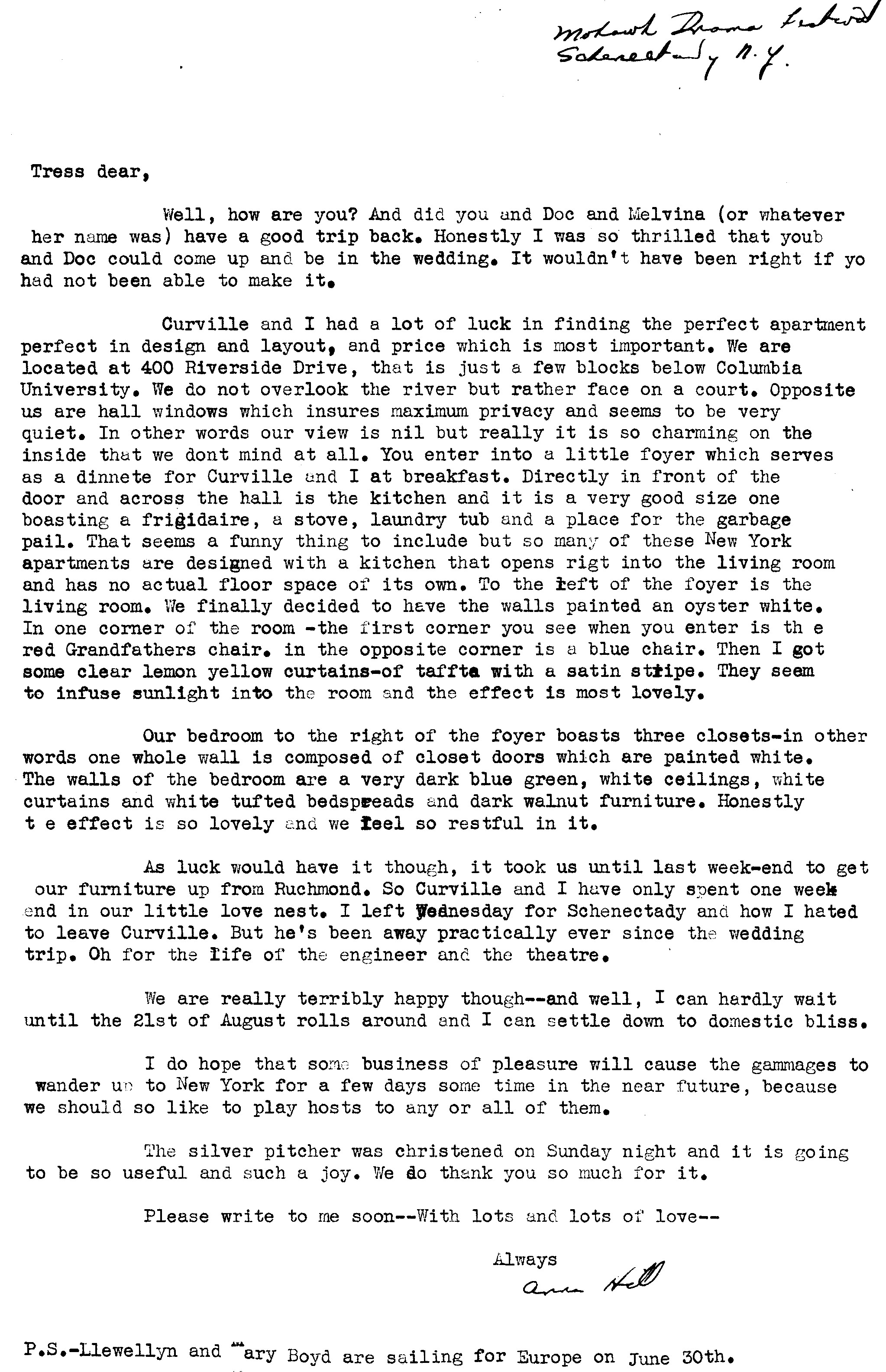 Letter